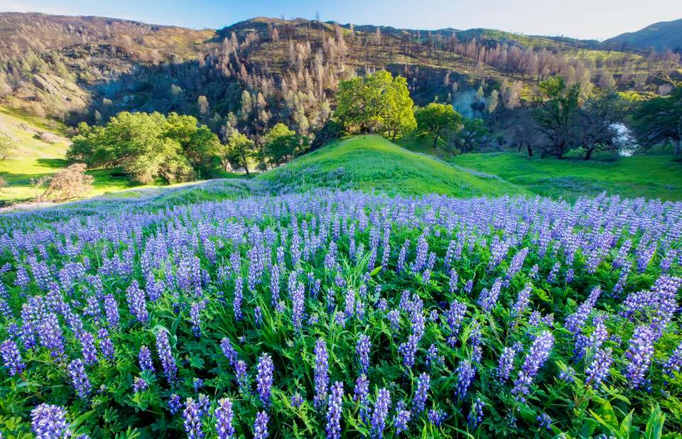 April showers did bring May flowers! Berryessa Snow Mountain National Monument, jointly managed by the BLM and Forest Service, encompasses nearly 331,000 acres of public land in the heart of northern California’s Inner Coast Range. Rising from near sea level in the south to over 7,000 feet in the mountainous north, and stretching across nearly 100 miles and dozens of ecosystems, the area possesses a richness of species that is among the highest in California and has established the area as a biodiversity hotspot. A part of the BLM’s National Conservation Lands, the Monument offers a wide range of outdoor activities, including hiking, hunting, fishing, camping, off-highway vehicle use, horseback riding, mountain biking and rafting. Photo by Bob Wick, BLM.